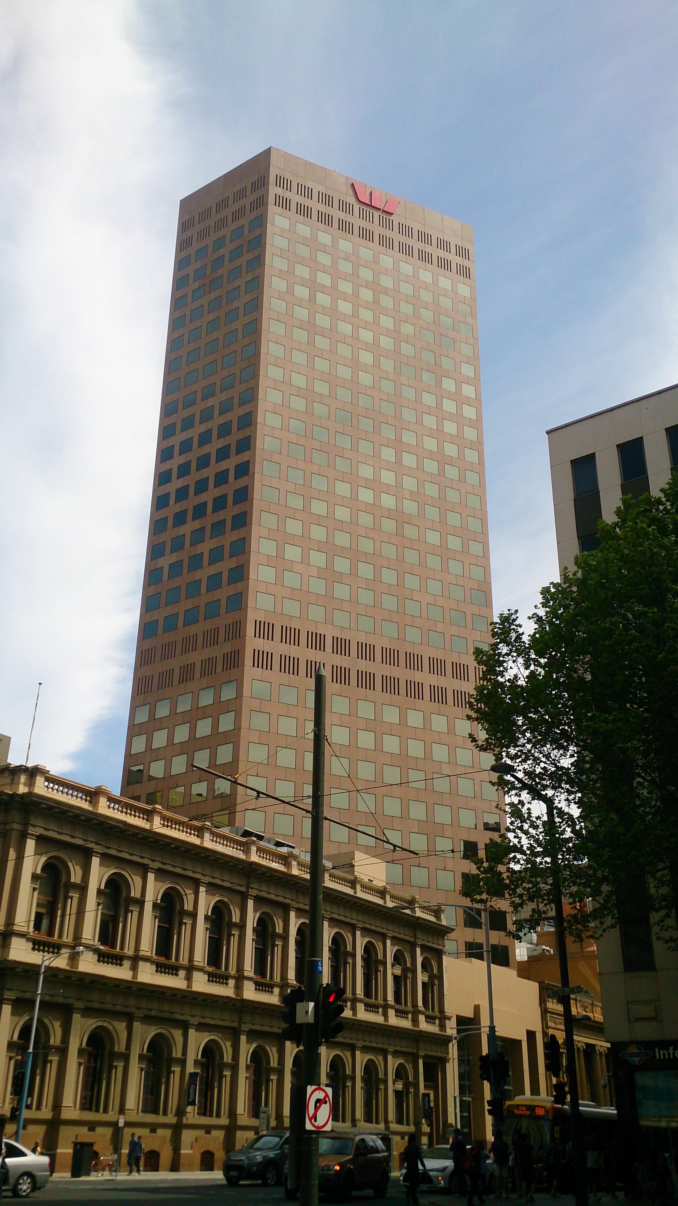 This is a photo I took of the Westpac Building.